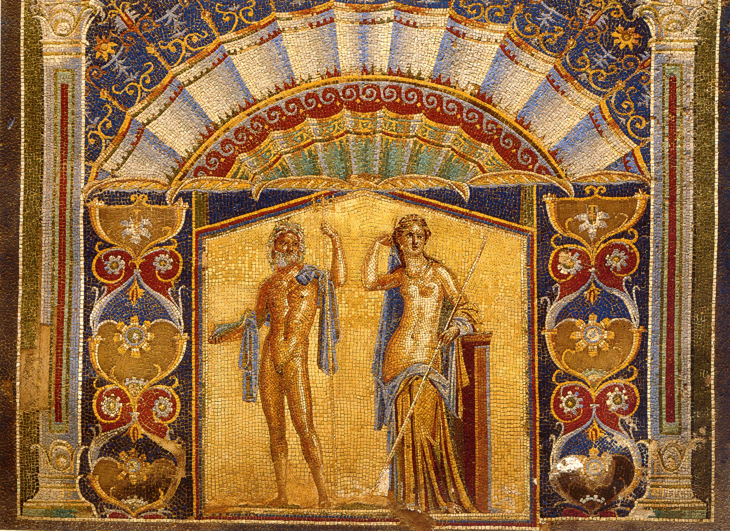 Roman mosaic with Neptune and Amphitrite in the Casa di Nettuno e Anfitrite in Herculaneum.